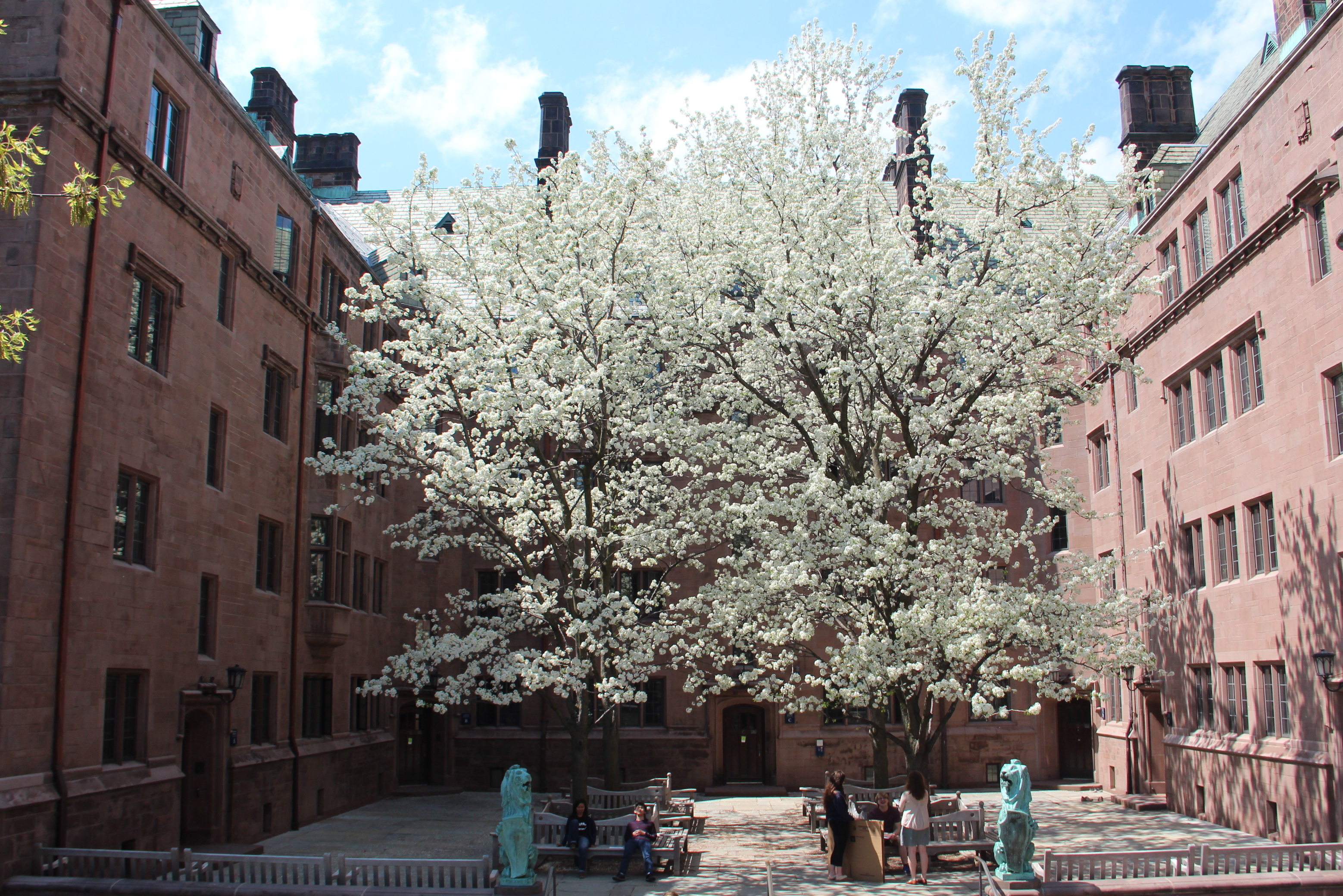 Courtyard of Lanman Wright Hall, formerly Wright Hall, with dogwood trees in bloom, at the northeast corner of Old Campus, Yale University, New Haven, CT